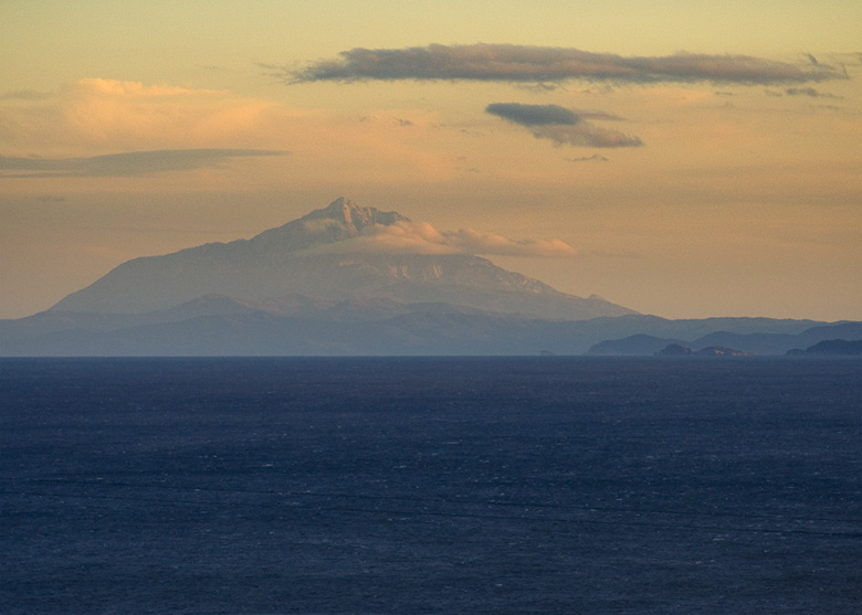 Mount Athos